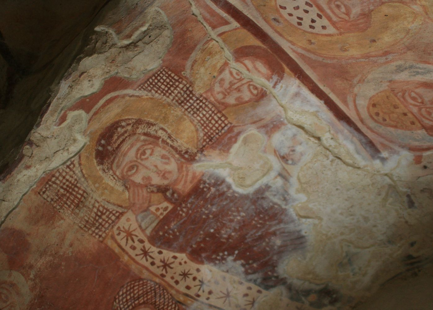 Zegaani monastery. 15th-century murals in the 5th-century church